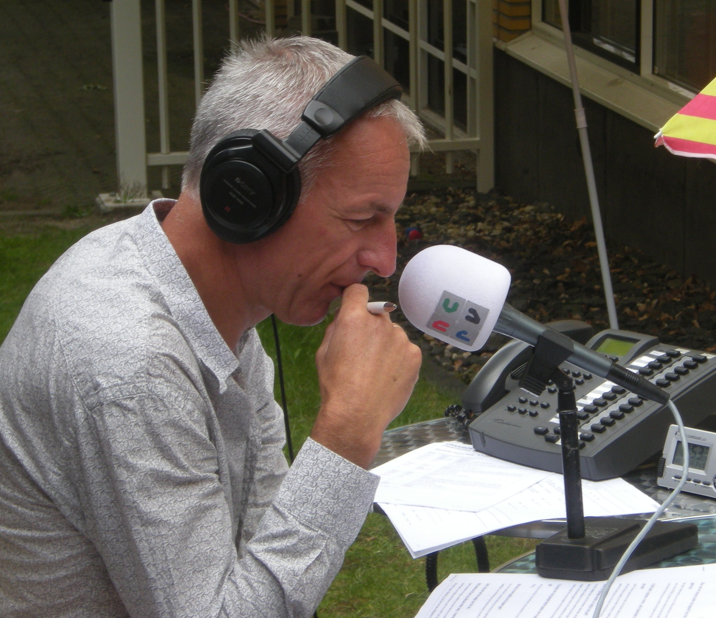 Frank du Mosch, Dutch radio and tv presentator